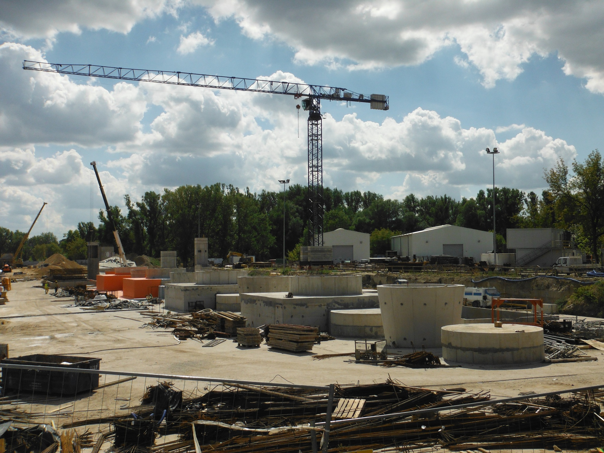 Stadion Narodowy metro station (under construction) in Warsaw (15th of August 2013).